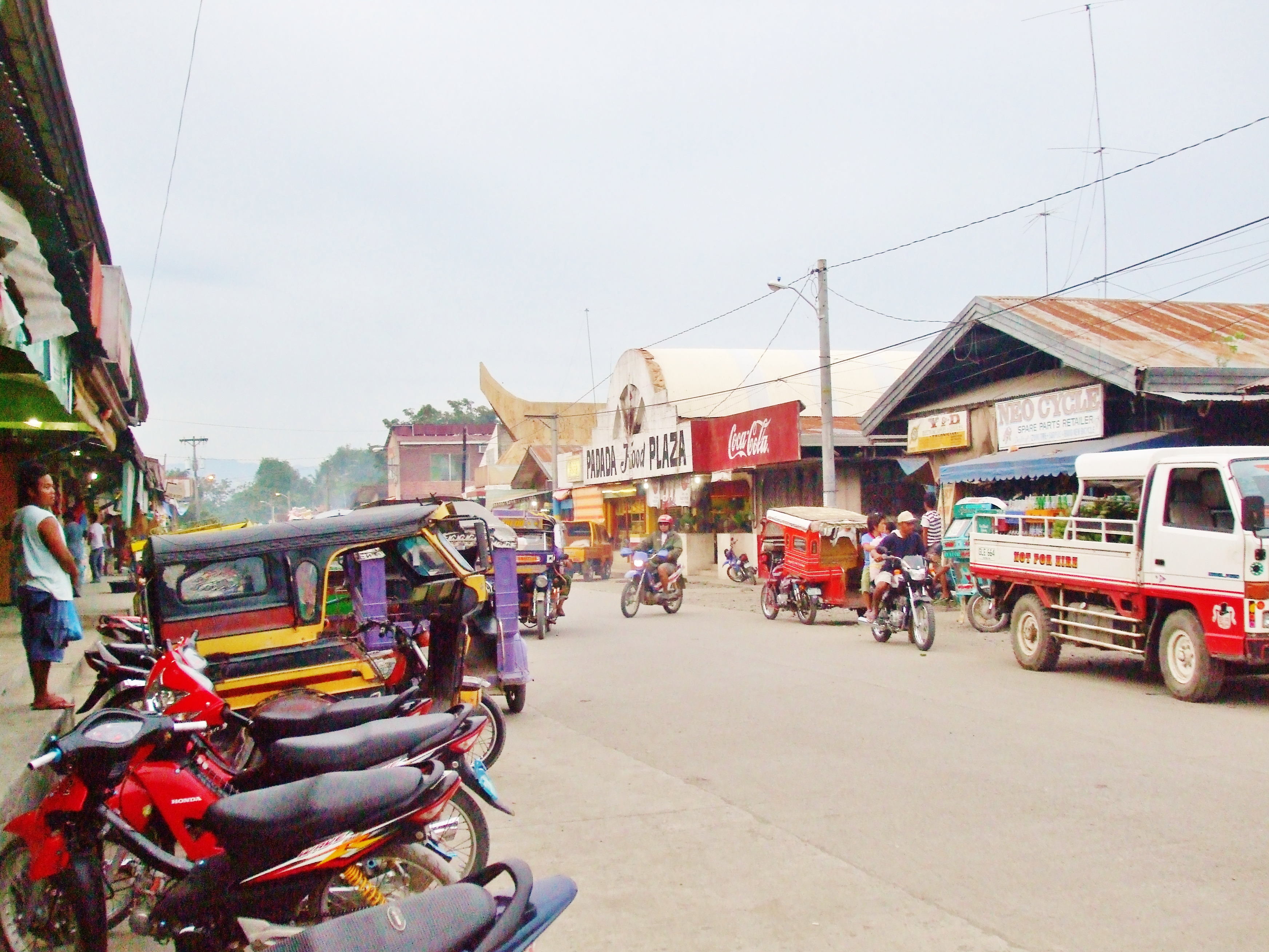 Going to Public Market/Terminal